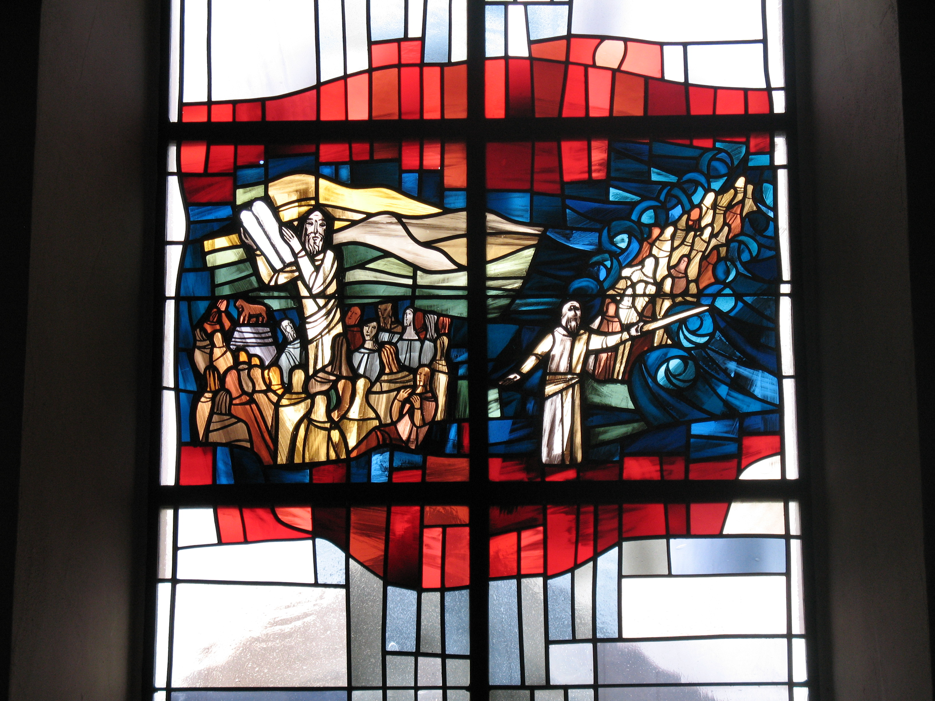 Stained glass window, Heilbronn-Kirchhausen, rom.-catholic St.Alban Church, designed by Joseph de Ponte, 1981.